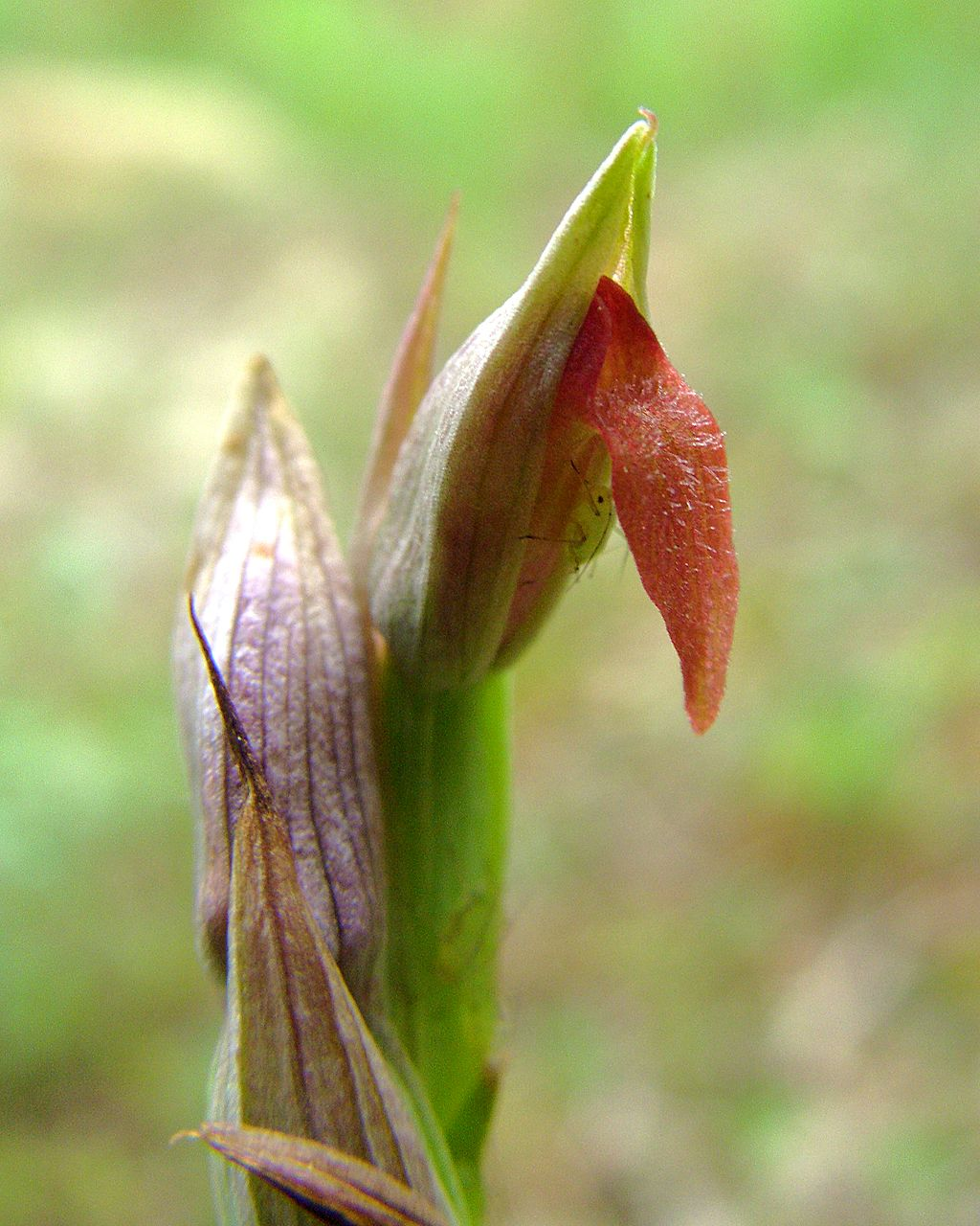 Serapias parviflora flower